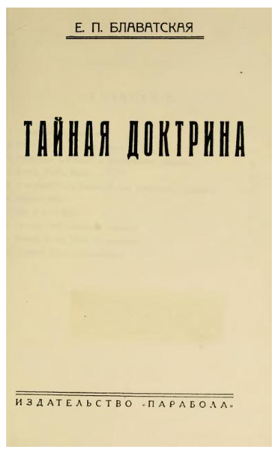 cover of The Secret Doctrine